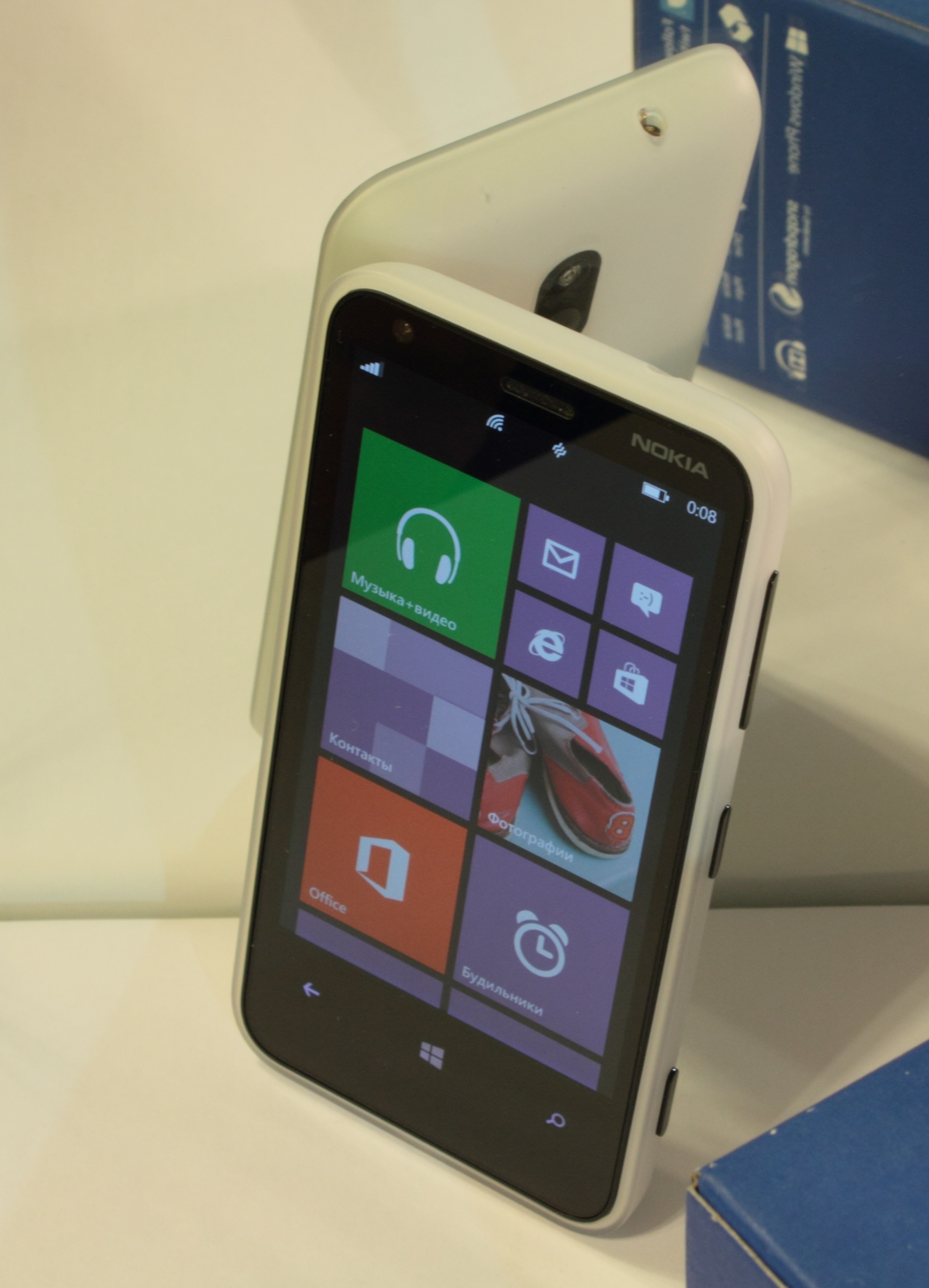 Nokia Lumia 620